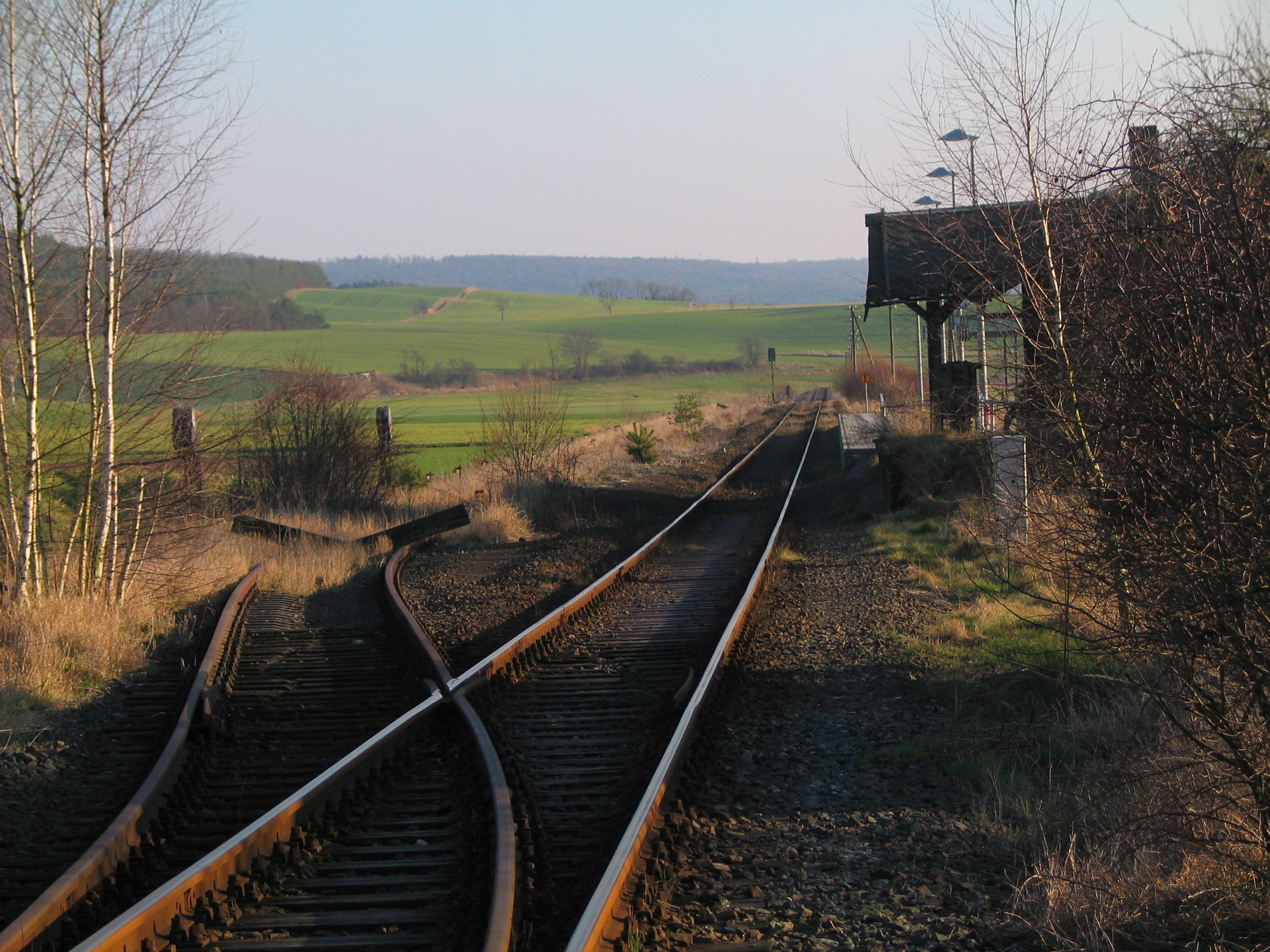 Rentweinsdorf: The rest of the former train station (The current platform is located in the background on the right side)